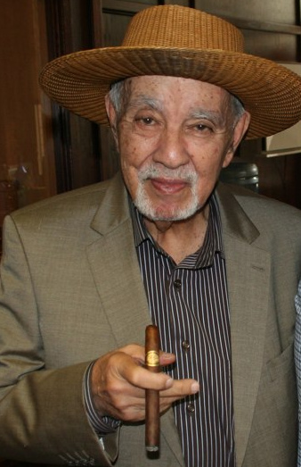 The Godfather of the cigar world, Avo Uvezian enjoying Elogio Coronas Extras Serie LSV with Nabil Sabbah...